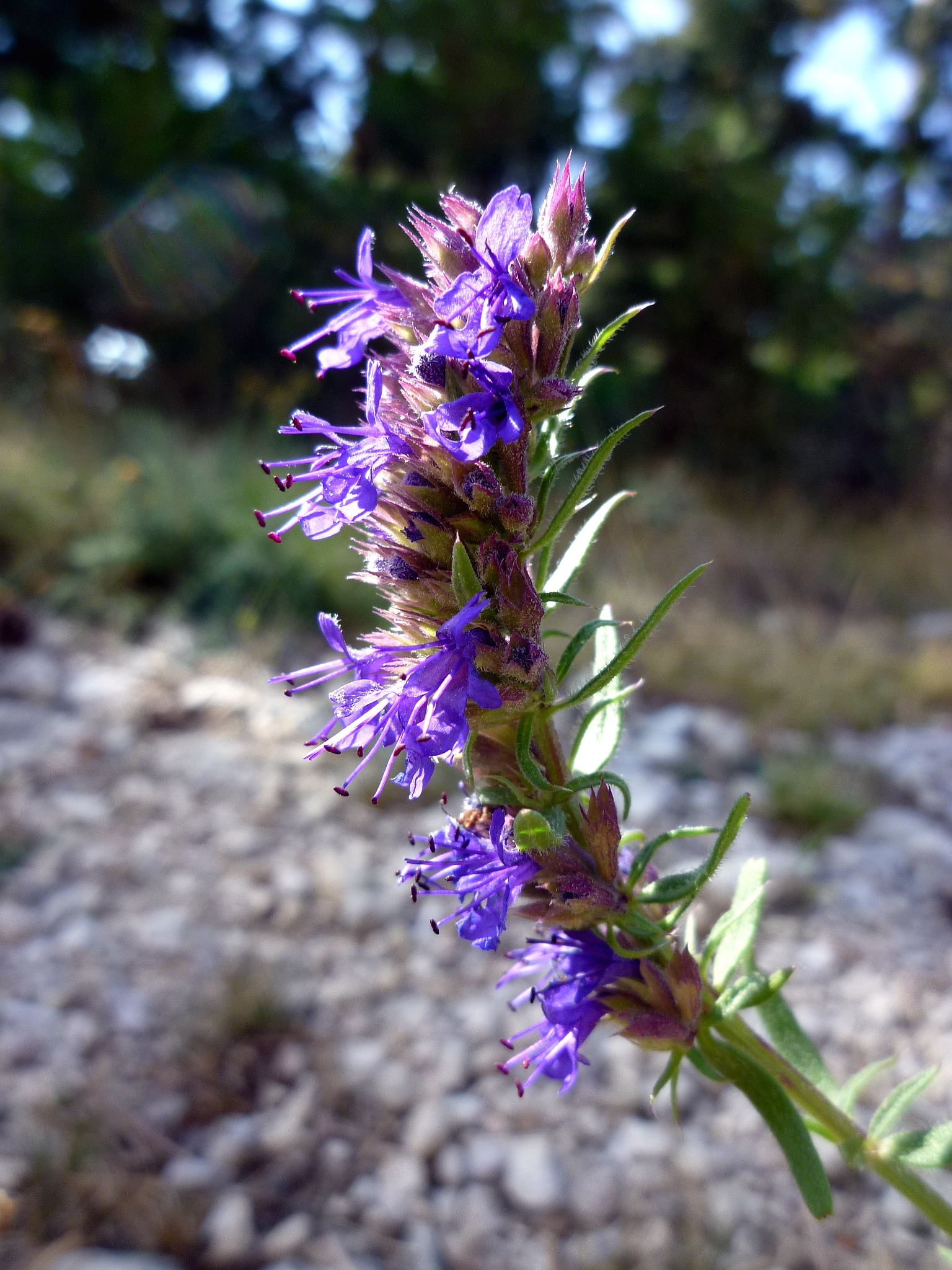 Hyssopus officinalis. In la Bòfia, Guixers (Solsonès - Catalunya). To 1.650 m. altitude